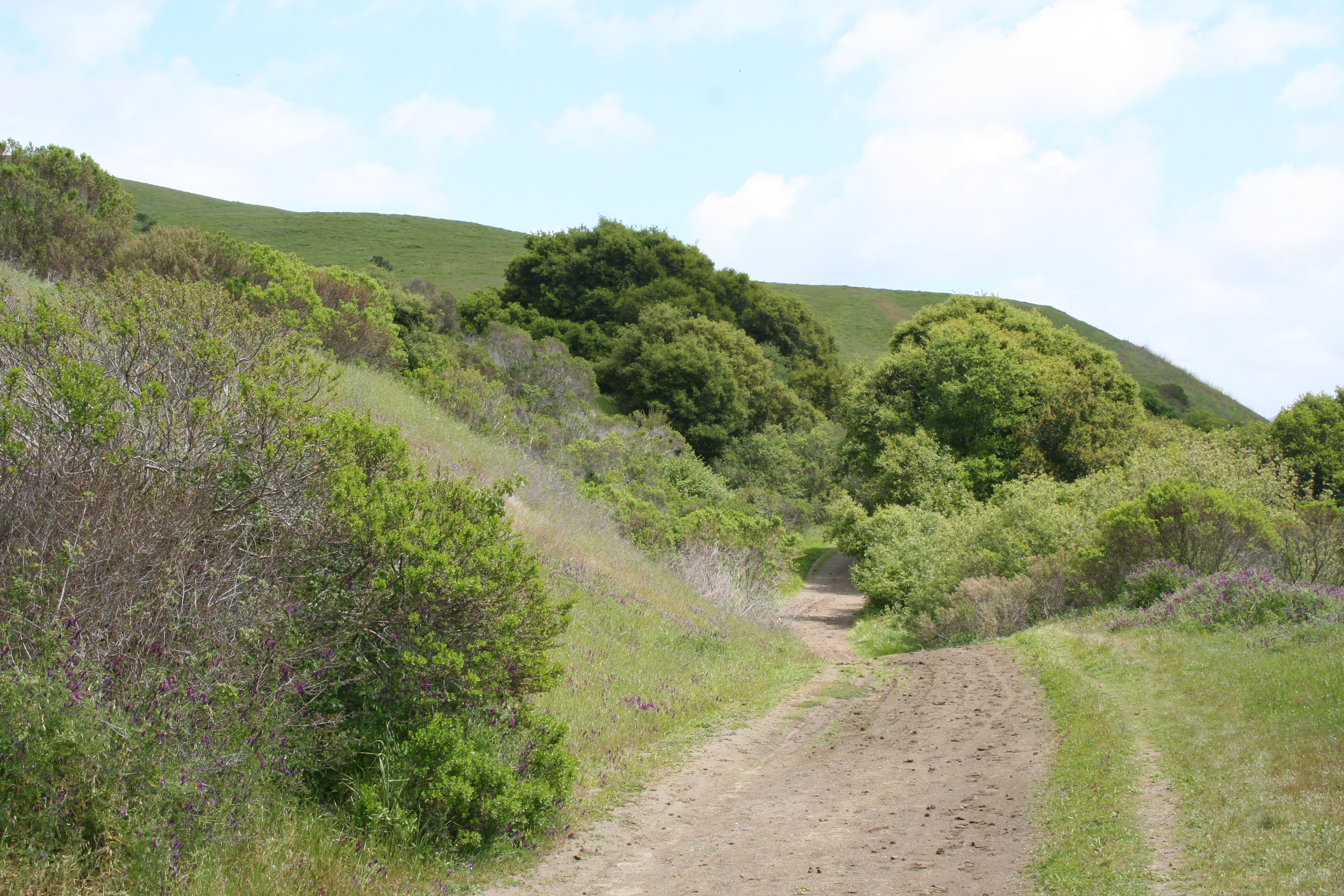 Wildcat Canyon Park in Richmond California